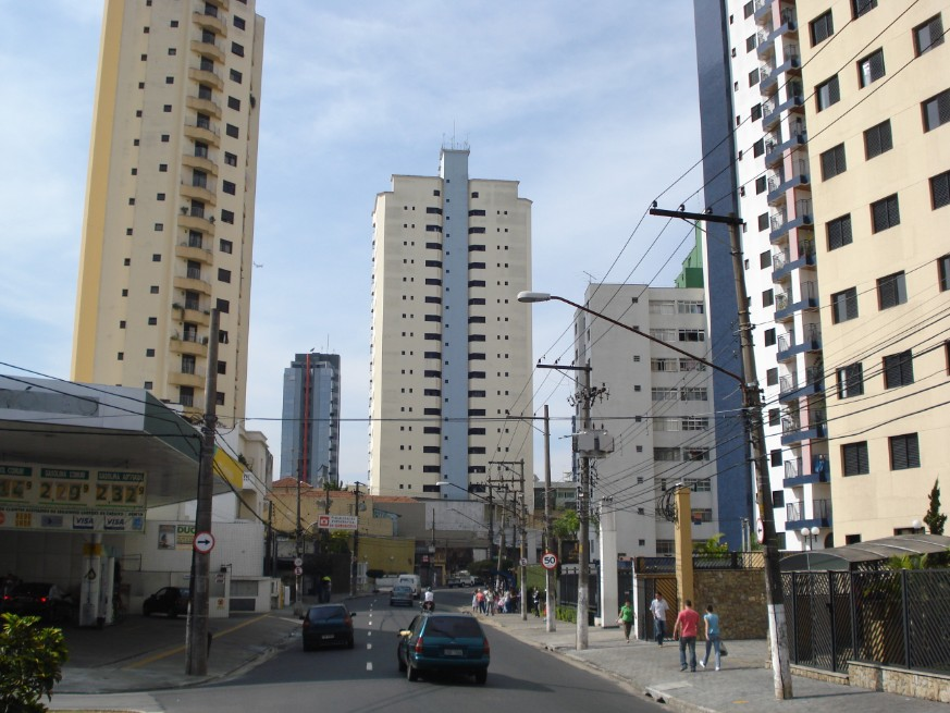 Photo of avenida Nova Cantareira (avenue), Santana - Sao Paulo, SP - Brazil.